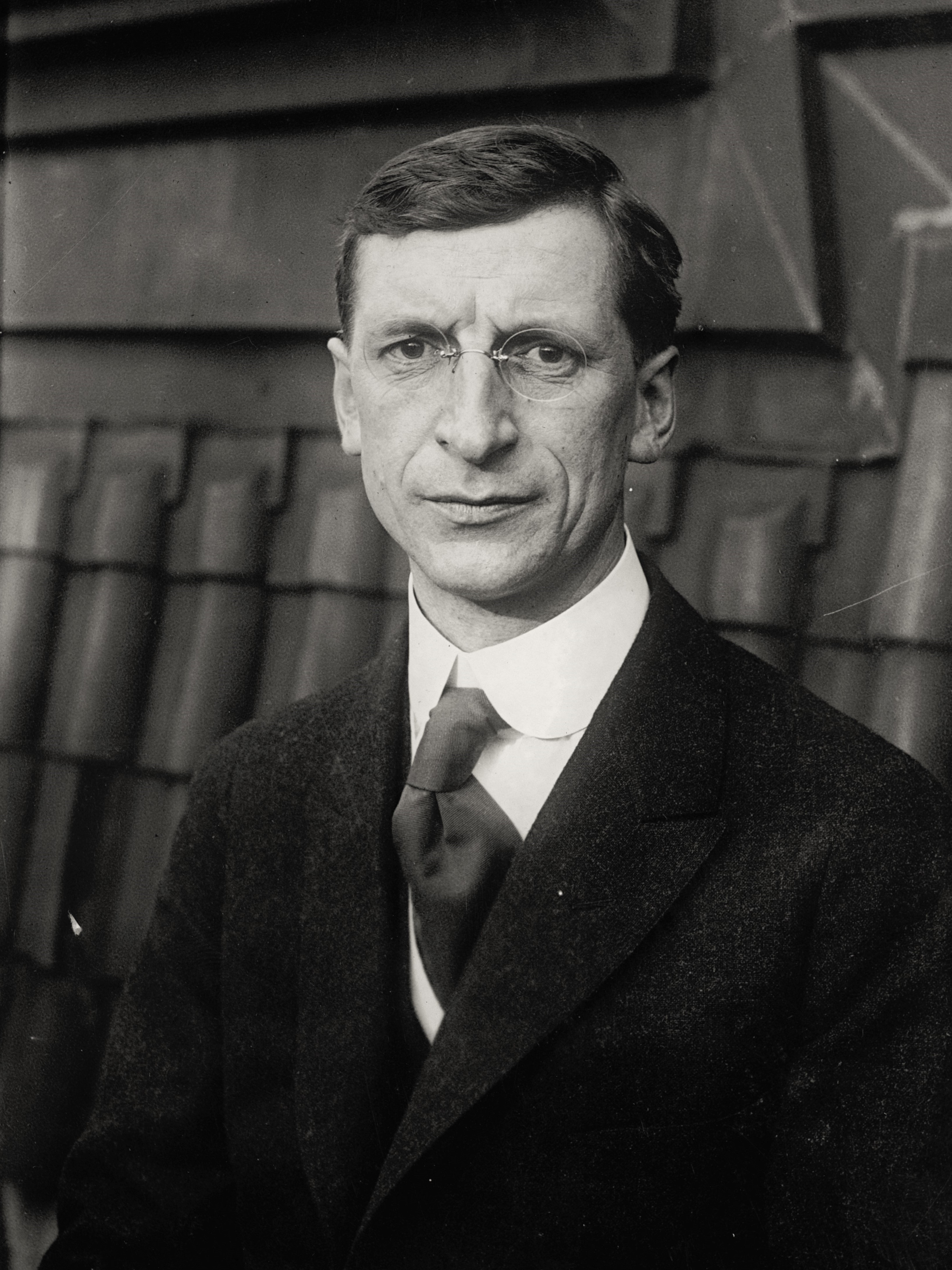 Title: De Valera Abstract/medium: 1 negative : glass ; 5 x 7 in. or smaller